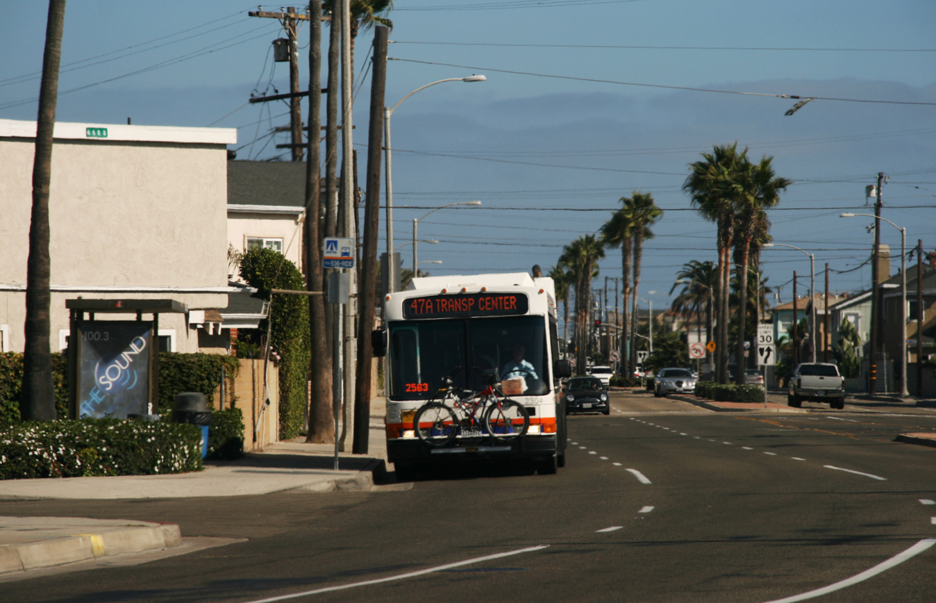 OCTA bus on Newport Boulevard in Newport Beach, California.